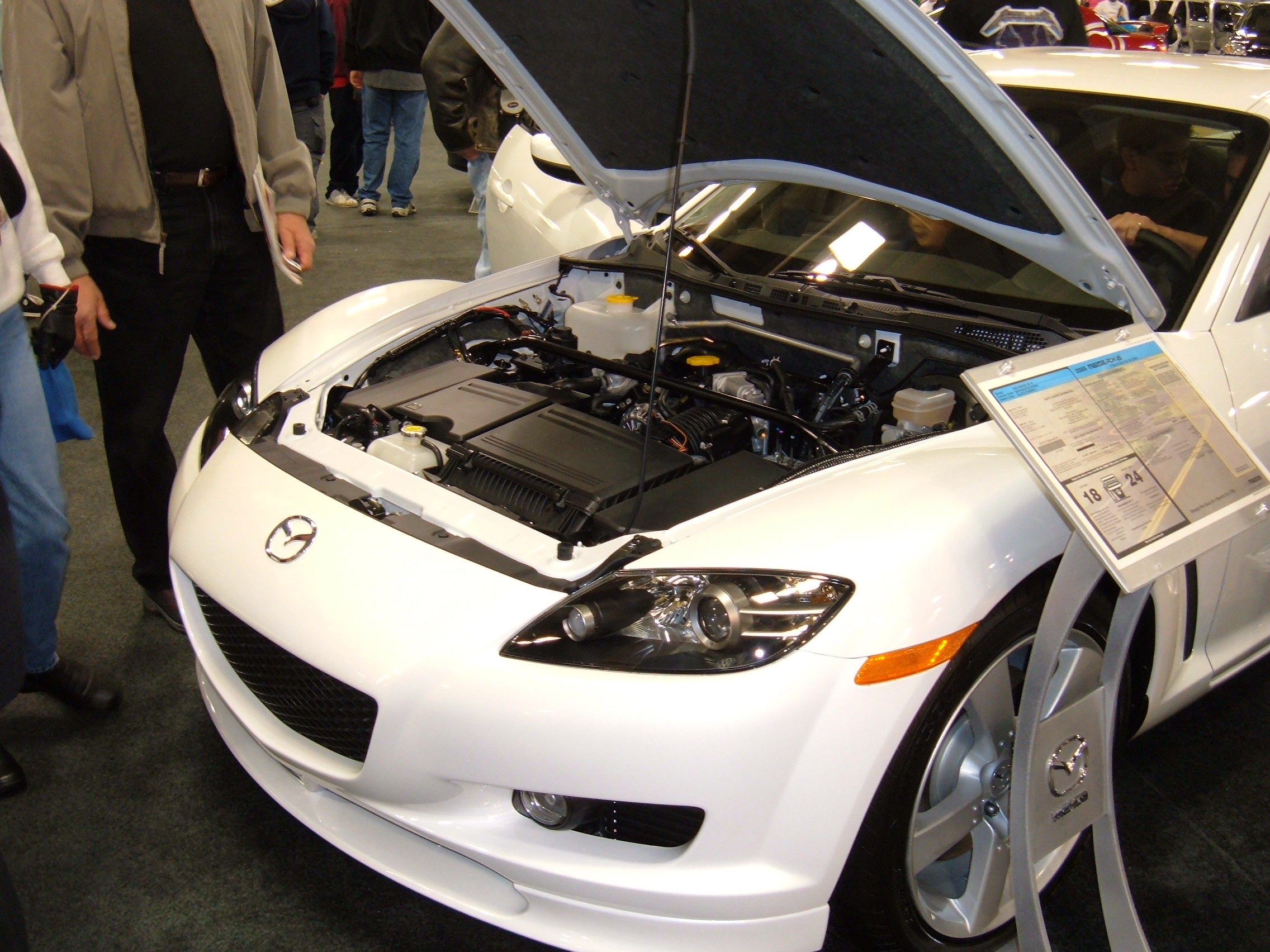 The engine of a 2005 Mazda RX-8 at the 2004 San Francisco International Auto Show.